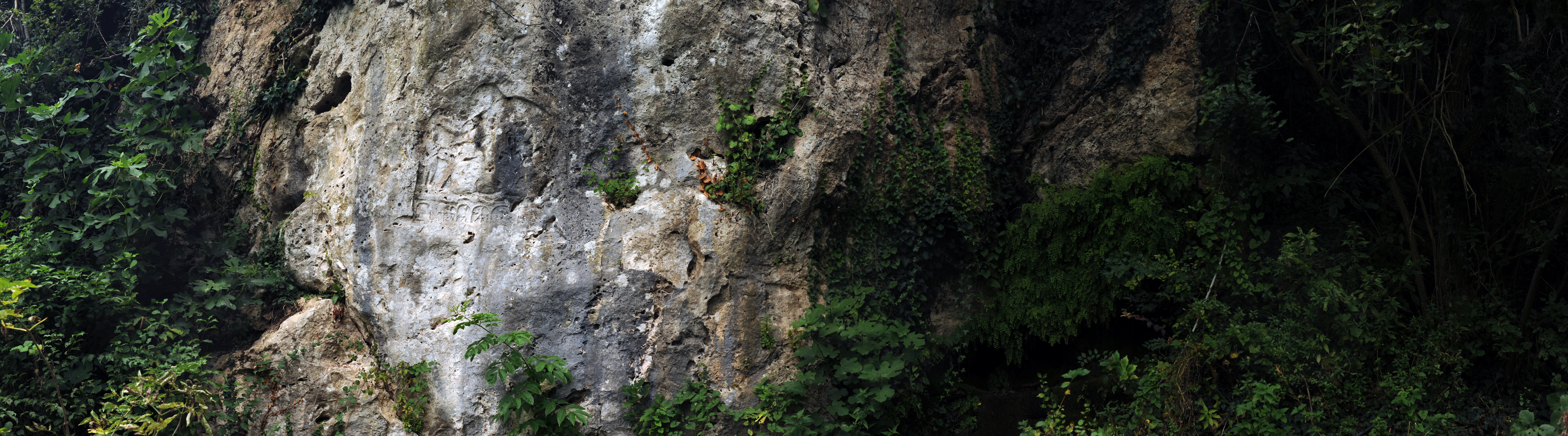 Relief of Mithras - panorama, Kato Thermes village, Xanthi Prefecture, Thrace, Greece.